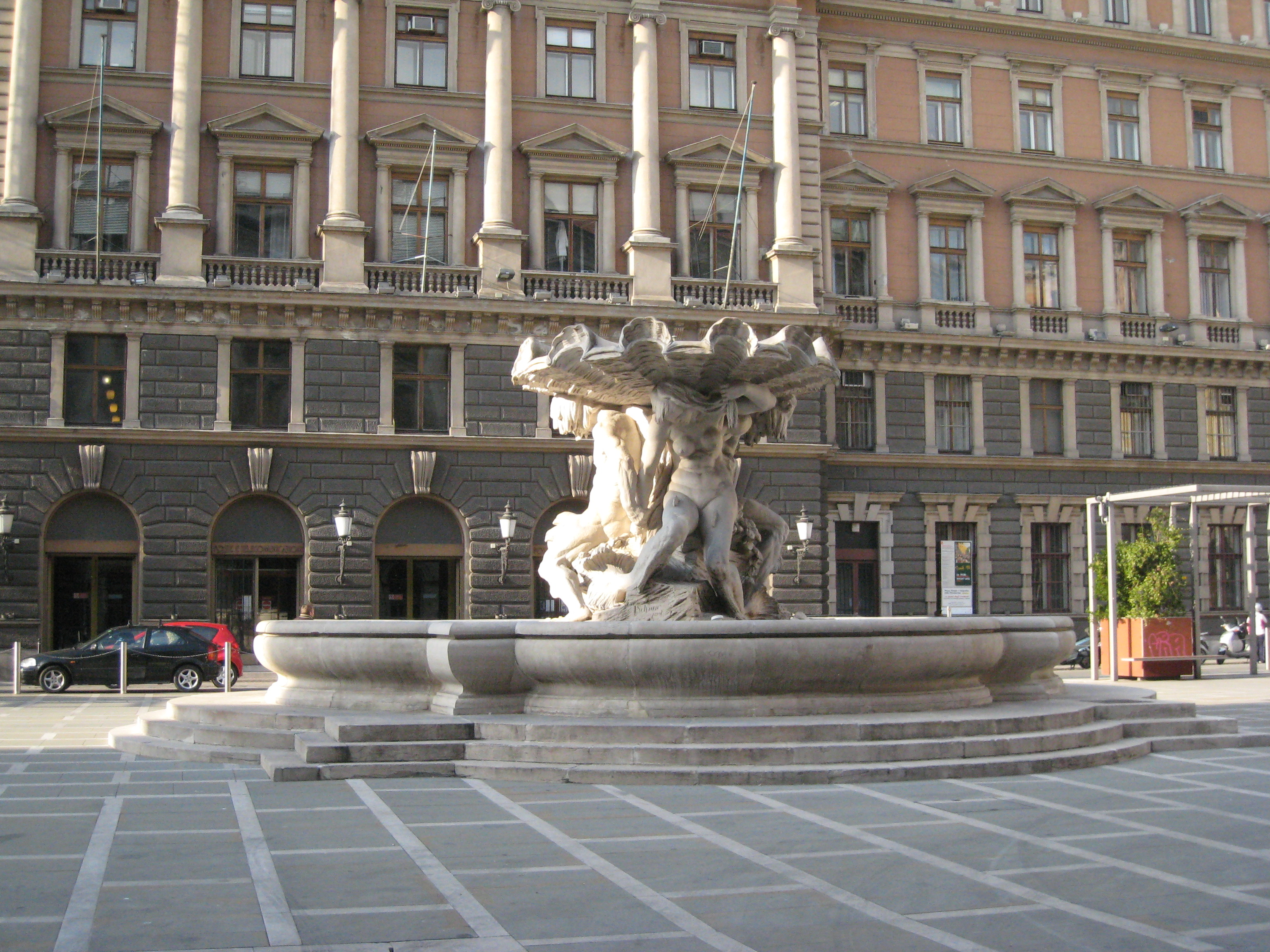 Italy - Trieste - Museo Postale e Telegrafico della Mitteleuropa